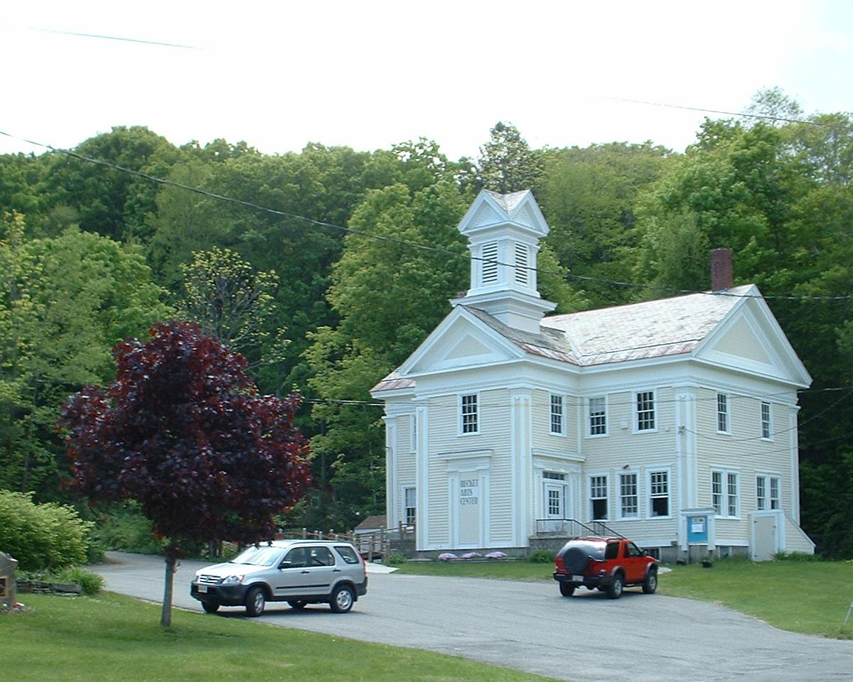 The Becket Arts Center, located in North Becket Intersection of Main St (Rte. 8) & Booker Hill Rd, Becket, MA